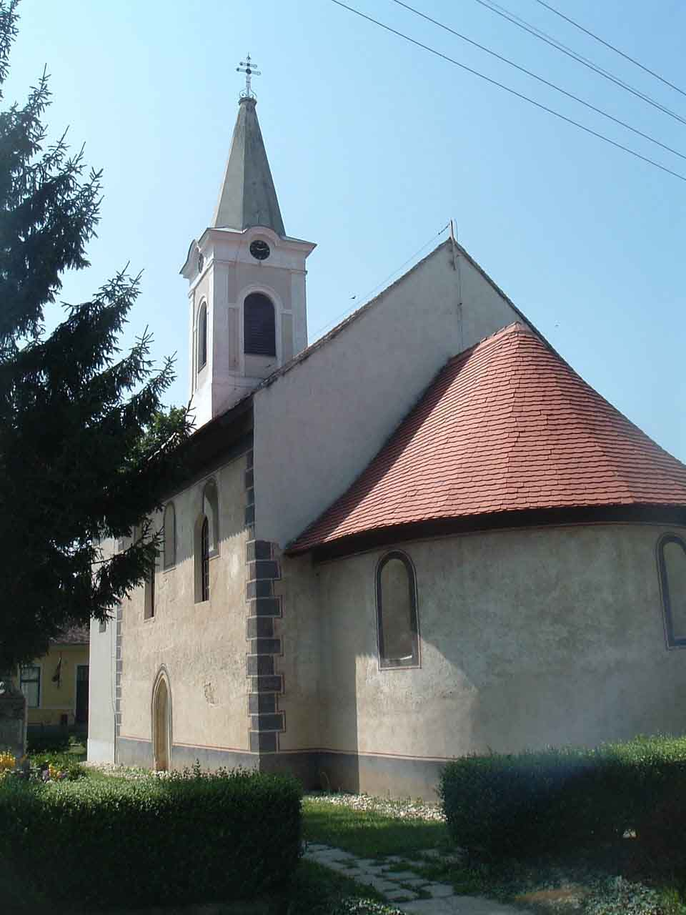 The roman catholic church of Nagyunyom, Balogunyom, Hungary